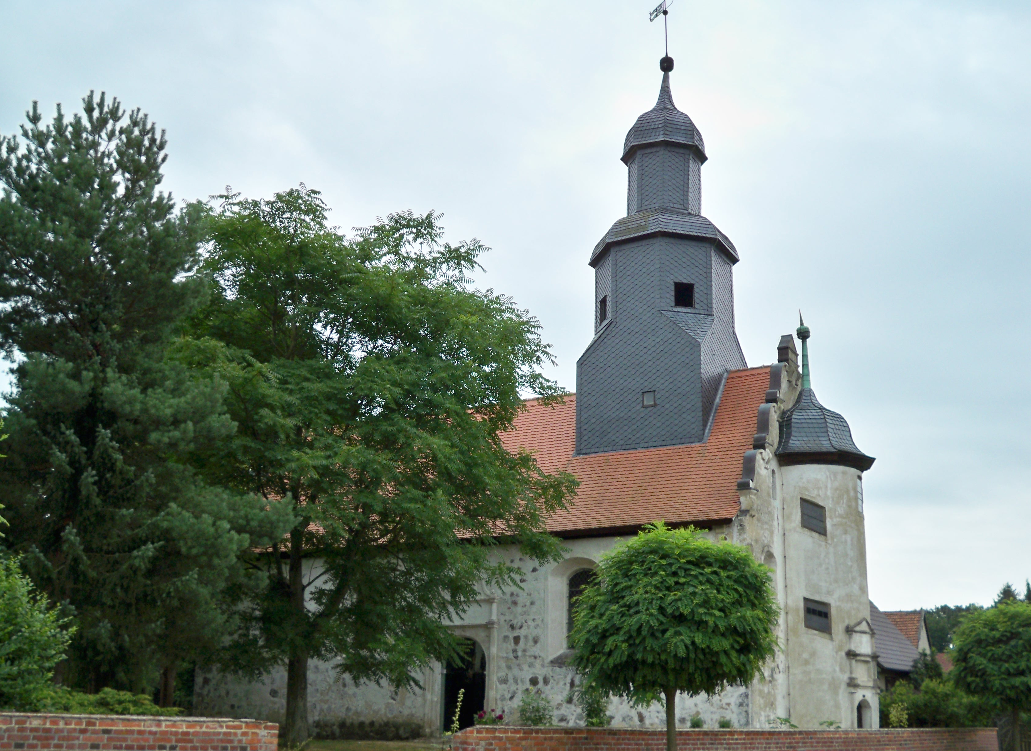 Osterwohle church